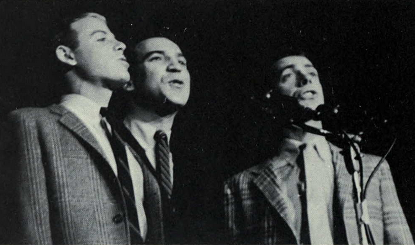 Photograph of Chad Mitchell Trio, performing at the University of Michigan during the 1964-1965 academic year.